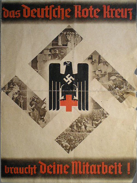 Old poster for German Red Cross during the Second World War.